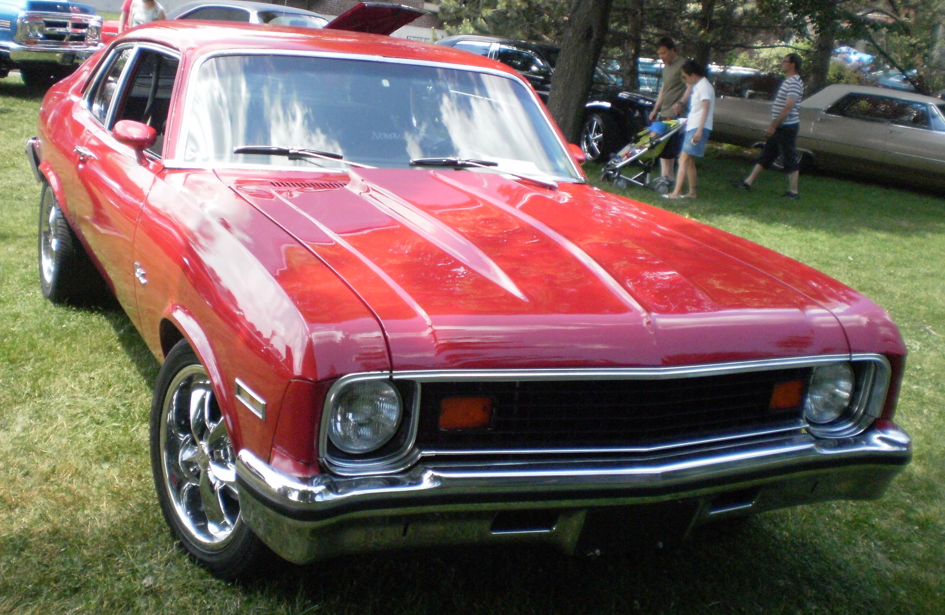 1974 Chevrolet Nova photographed in Ste. Anne De Bellevue, Quebec, Canada at Crusin' At The Boardwalk 2011.